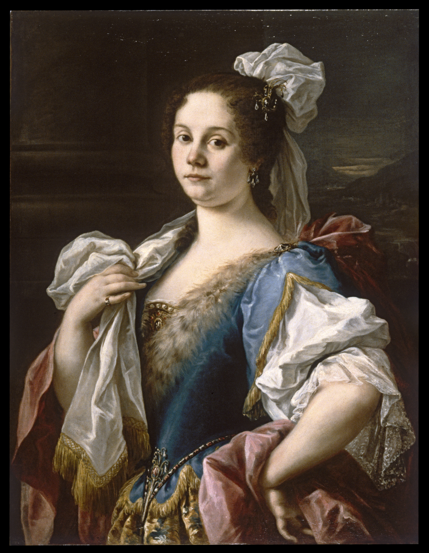 Turning her gaze towards the spectator with one hand resting on her hip, this noblewoman has a stately, matronly appearance that is intended to express personal discipline and dignity. Her lavish costume-with a scarf tied to her hair, a brocade dress set with pearls and a feather, and jeweled pendants-communicates her social status, as does the column, suggestive of a palatial setting, a compositional device developed during the 16th century to communicate aristocratic status.